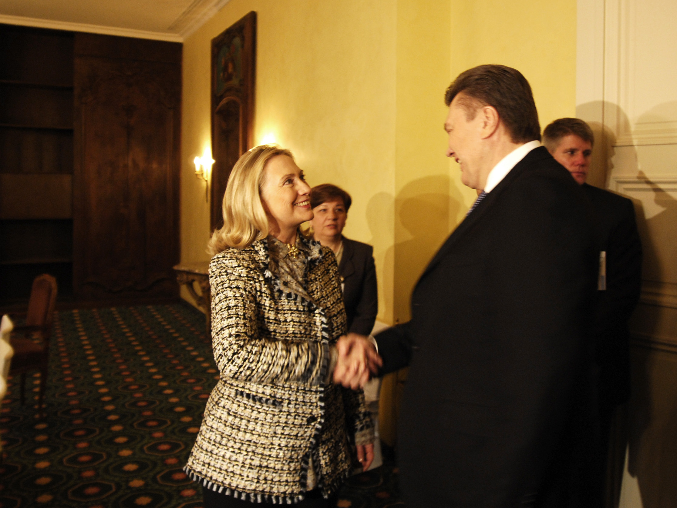 48th Munich Security Conference 2012: Hillary Clinton (le), Secretary of State, USA, Viktor Yanukovych (ri), President, Ukraine.